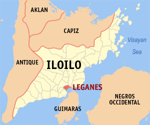 Map of Iloilo showing the location of Leganes